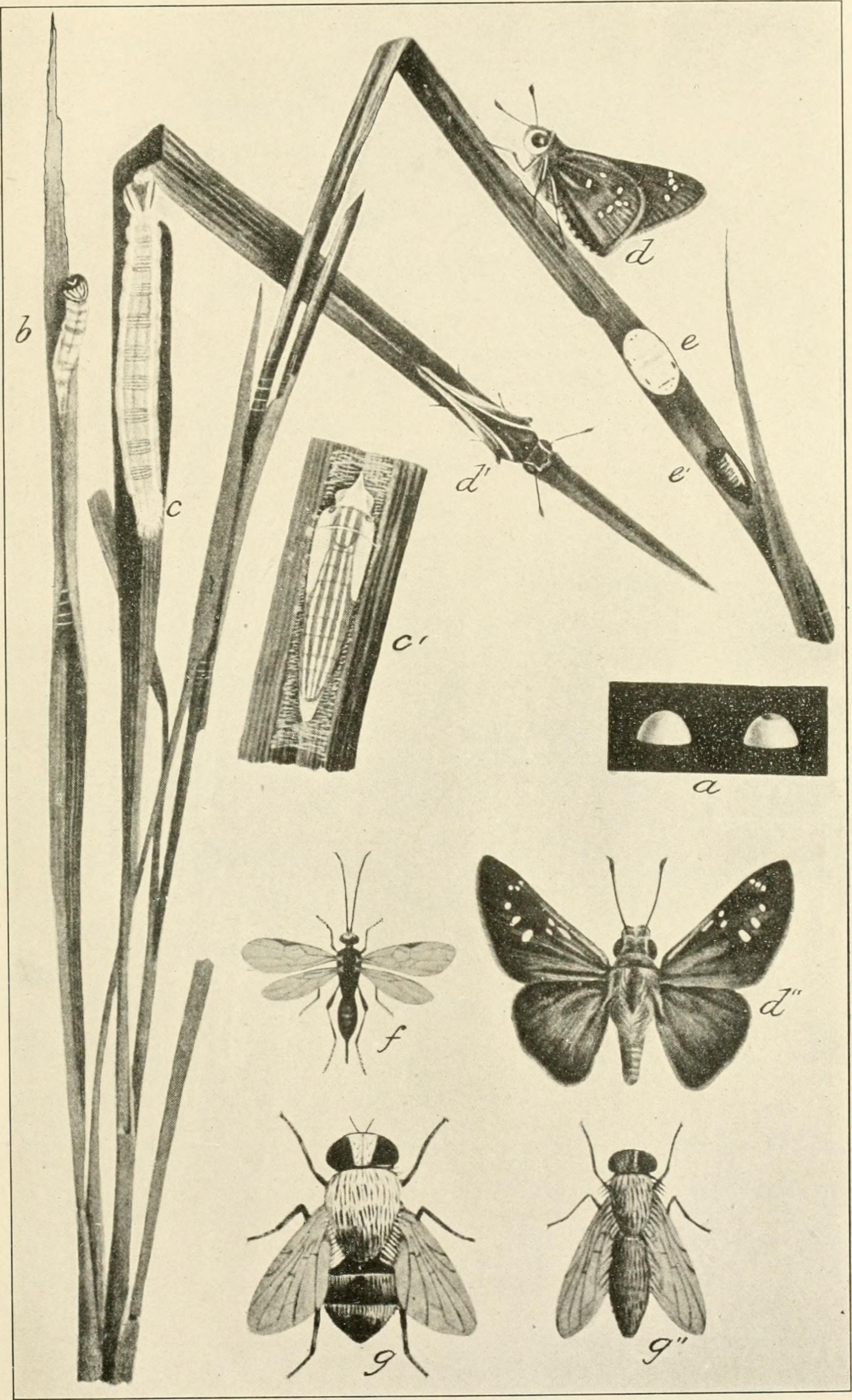 Title: A manual of dangerous insects likely to be introduced in the United States through importations Year: 1917 (1910s) Authors: United States. Bureau of Entomology Pierce, W. Dwight (William Dwight), 1881-1967 Subjects: Insects, Injurious and beneficial Publisher: Washington, Govt. print. off. Text Appearing Before Image: The Rice Case-Bearer. The rice case-bearer (Nymphula depunctalis): a, Larva; 6. pupa; c, pupa in cocoon; d, adult; e, elarvse feeding, in cases; /,/, cocoon stems; g, g, larval cases. (Maxwell-i^eiroy.) U. S.Dept. of Agriculture, Manual of DangerousHnsects. Plate XLI. Text Appearing After Image: The Rice Skipper. The rice skipper (Parnara mathias): a, Eggs; 6, larva webbing leaf; c, full grown larva; c, pupa;d, d, d, adults; e, e, puparia of Tachinid flies; /, Ichneumonid parasite; g, g, aachmid parasite.(Maxwell-Lefroy.) INSECTS OF RUTABAGA, RYE, SAGO PALM, SAL. 193 EUTABAGA. See Turnip, RYE. (Secale cereale Linnaeus. Family Gramineae.) This species as well as its near relatives is cultivated in Europe and Asia. For fulltreatment of its insect pests, see Grains and grasses. SAGO PALM. (Cycasrevoluta. Family Cycadacese.)A palm-like plant of the Orient, much used in this country at funerals. (See Palms.) SAL. (Shorea spp. Family Dipterocarpacese.)Valuable timber trees of India. IMPORTANT SAL INSECTS. COLEOPTERA.Scarabseldse. Scrica assamensis Brenske; India; adults defoliate and larvae attack the roots of Shorea robusta. Lepidiota bimaculata Saunders; India; adults feed on foliage oi Shorea robusta. Phyllophaga problematica Brenske (Lachnosterna), and P. dypeaUs Brenske; India